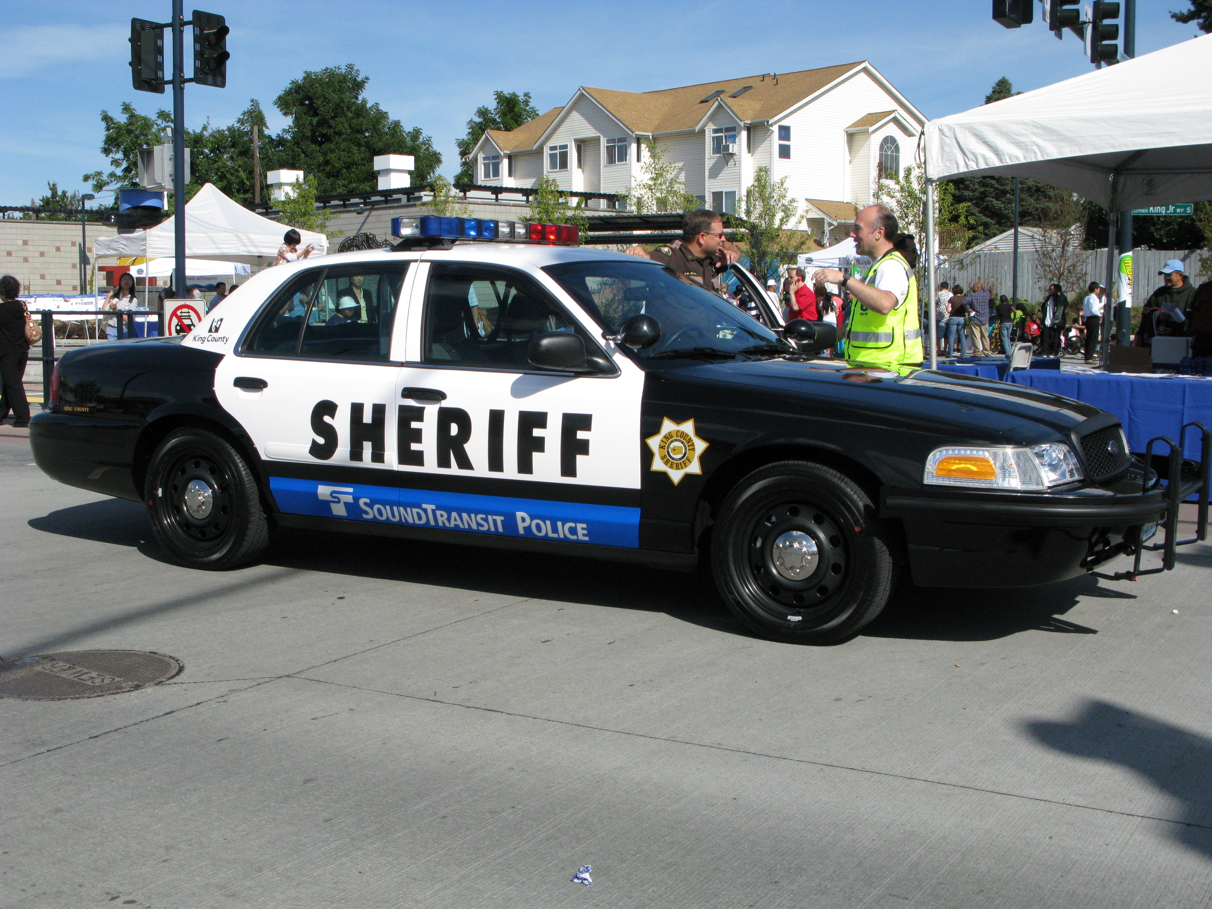 Sound Transit Police